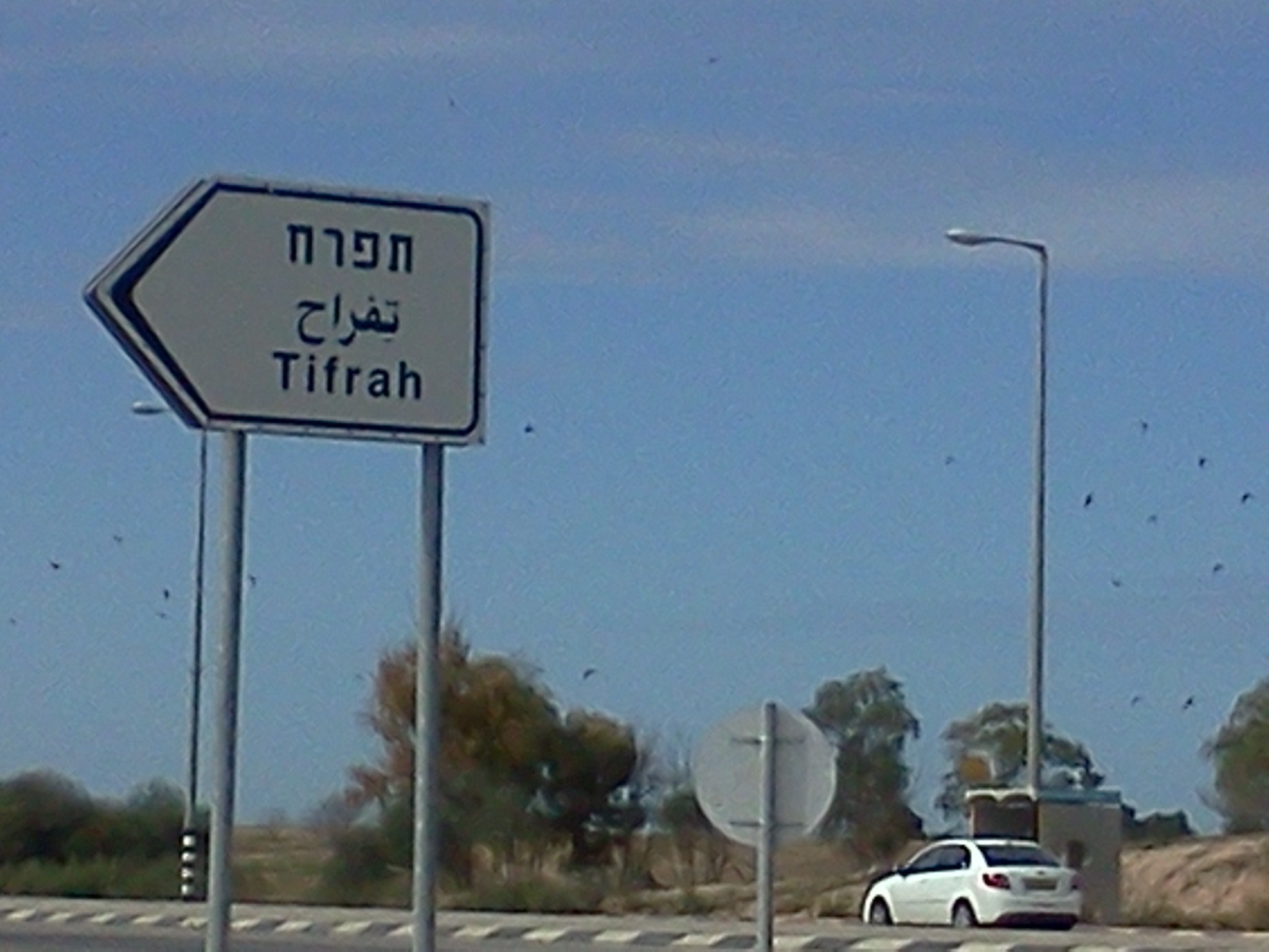 Sign with the name "Tifrah" in the entrance to the village